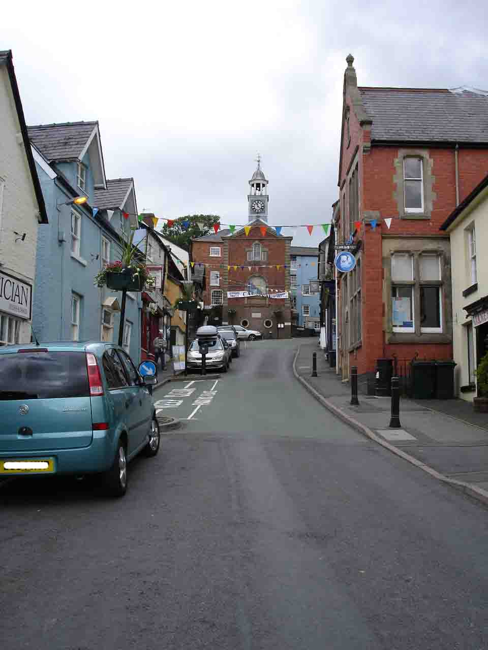 Church at Bishop's Castle